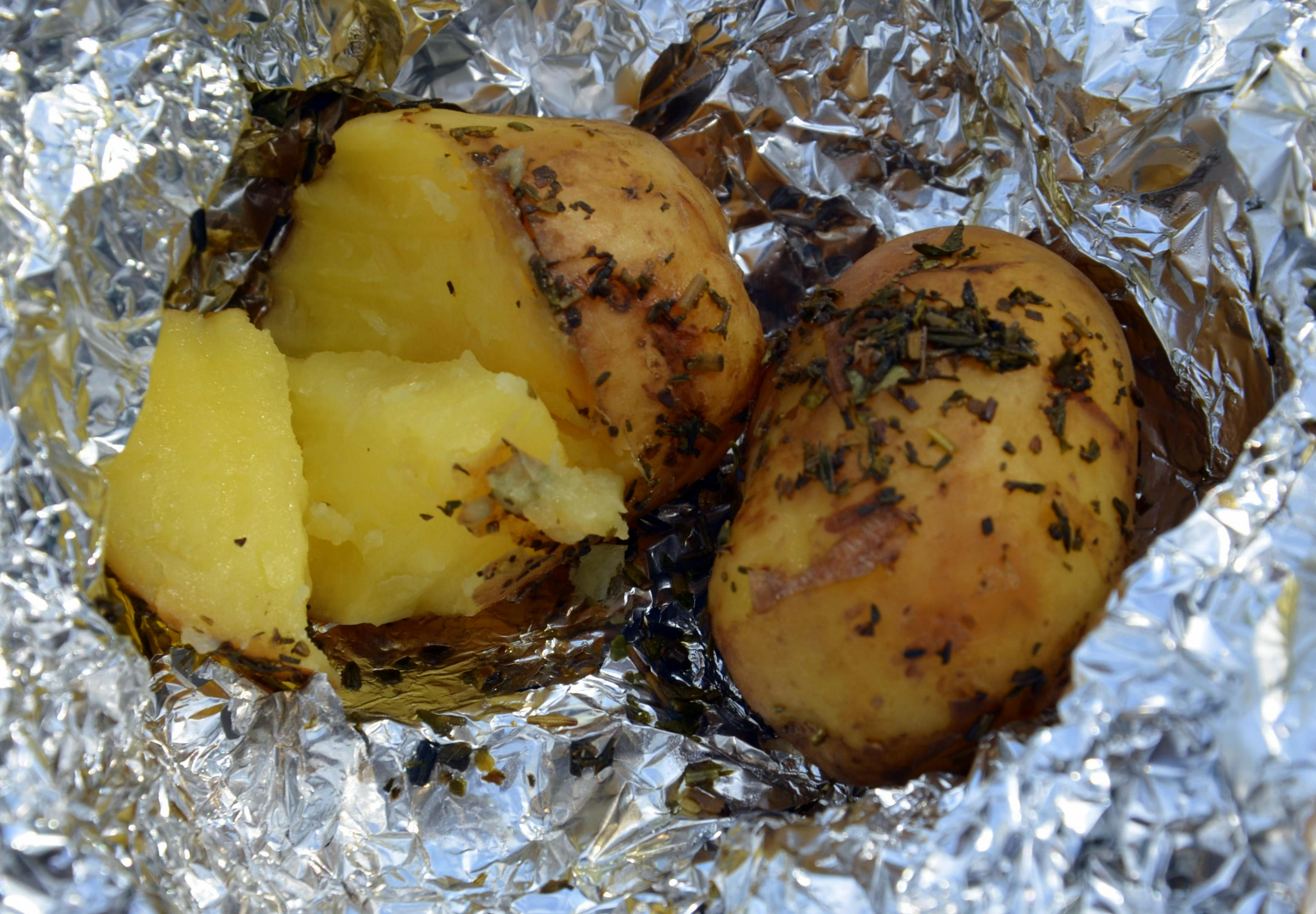 Beskidische Kuchengewürze